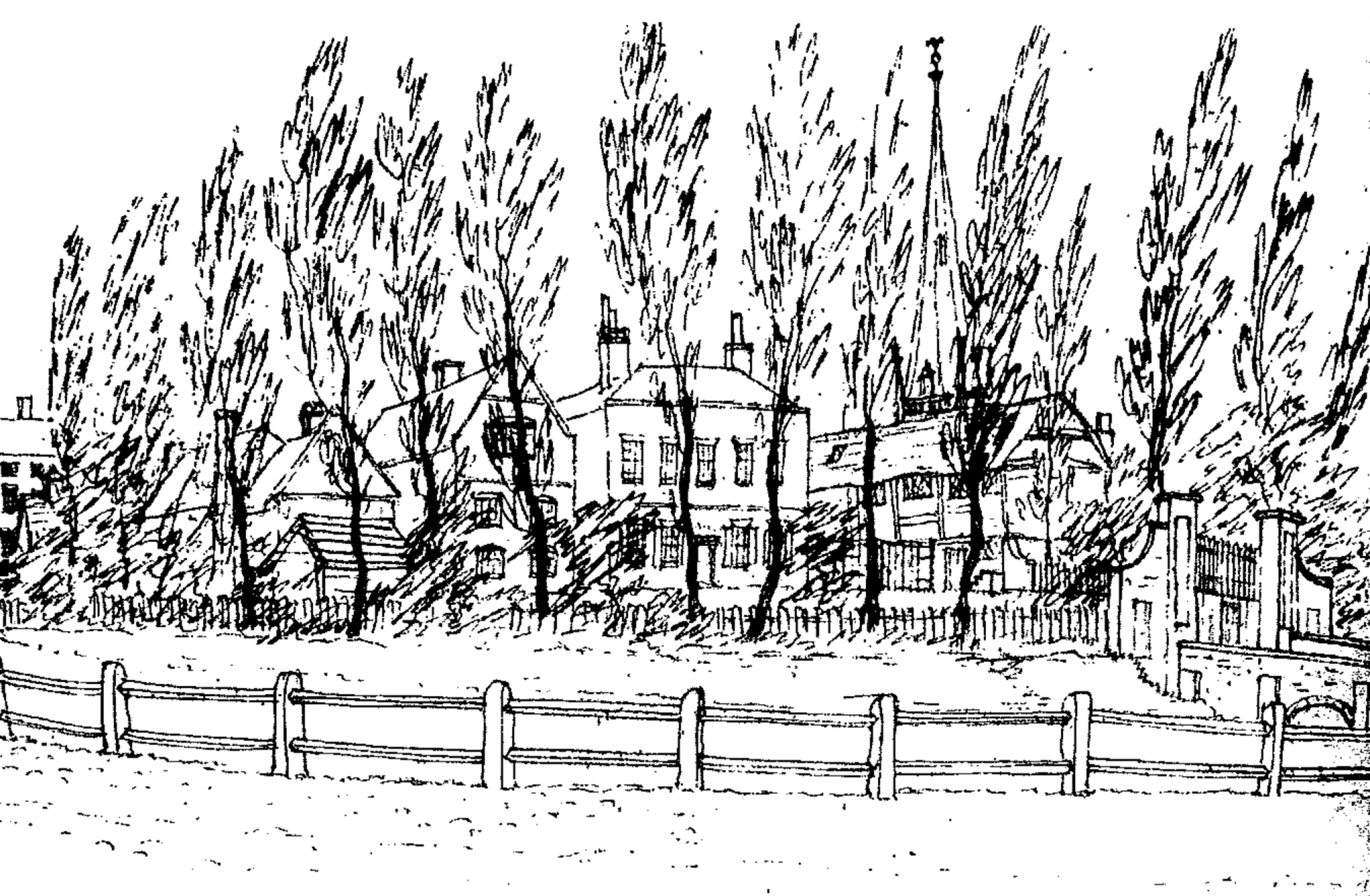 Illustration b William Hamper of the Birmingham Moat in 1814 - the year before it was destroyed.